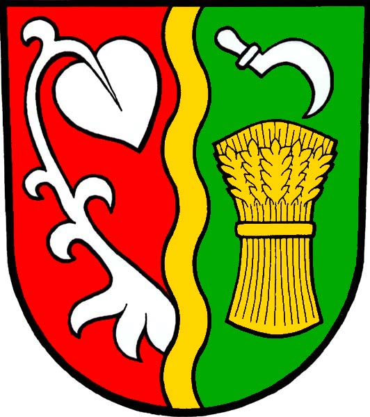 Municipal coat of arms of Slatina nad Zdobnicí village, Rychnov nad Kněžnou District, Czech Republic.